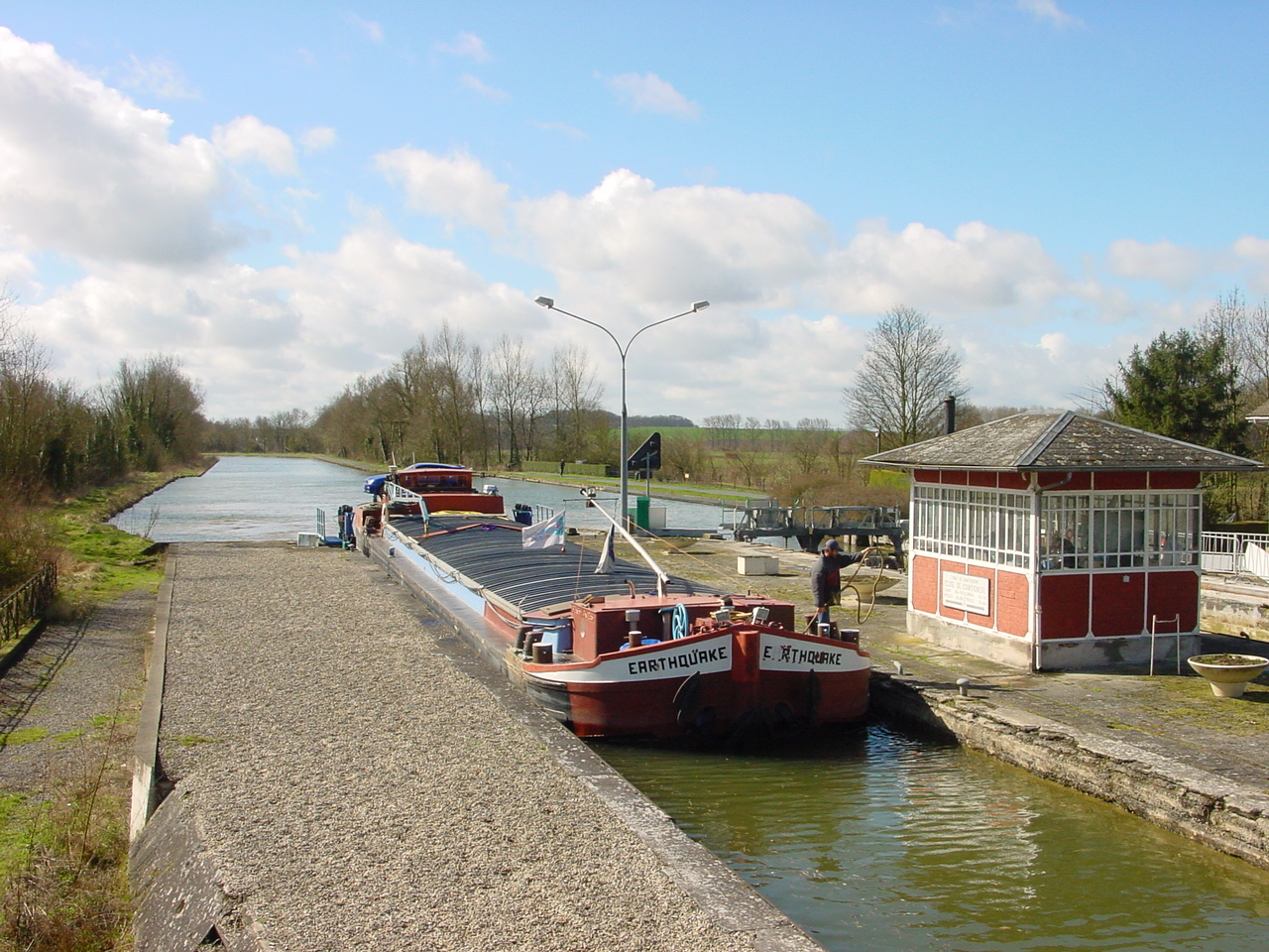 the lock at Noyelles-sur-Escaut on the canal de Saint-Quentin (département du Nord, France)